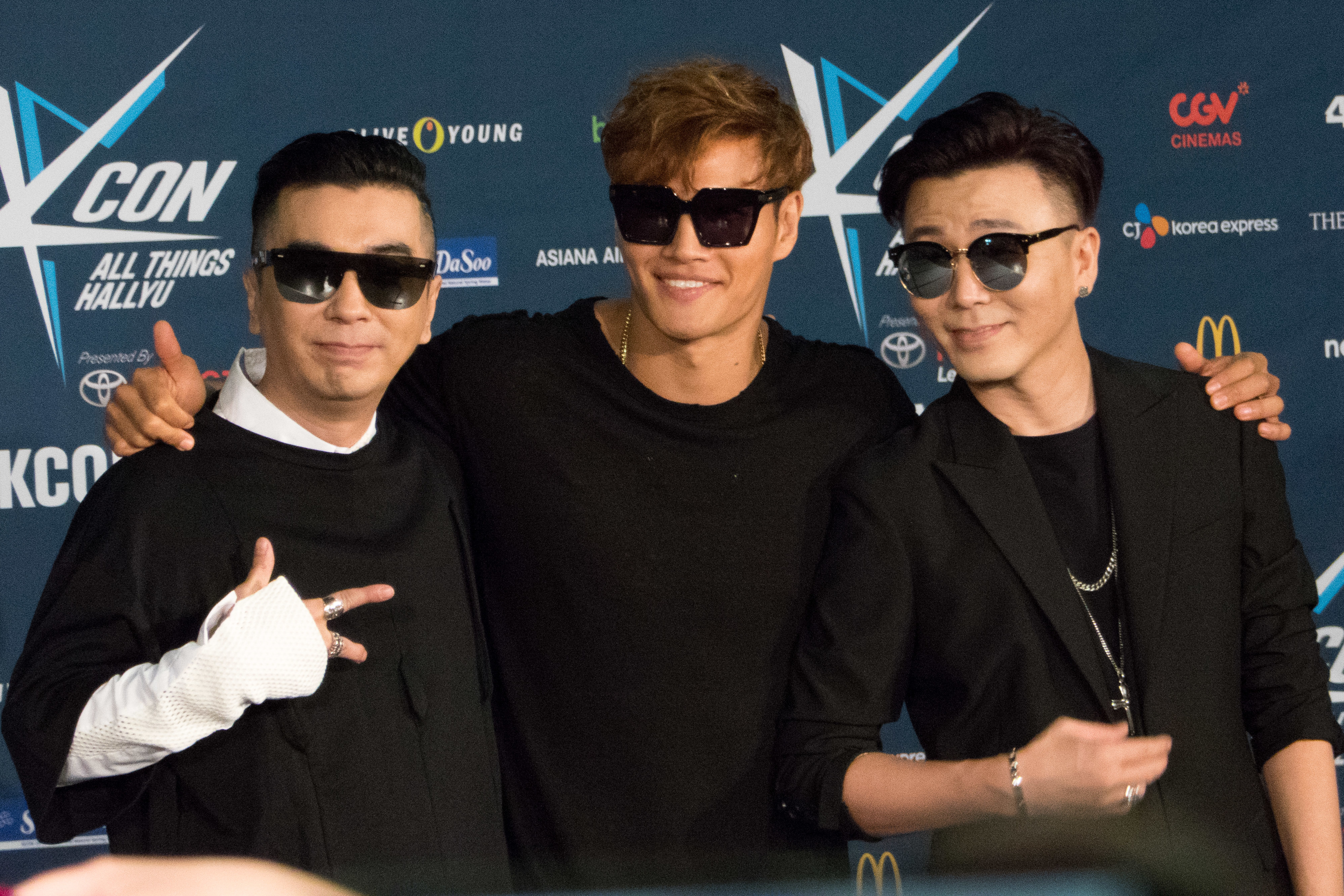 Saturday Red Carpet